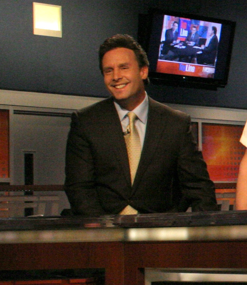 Karl Ravech, host of "Baseball Tonight" is joined by West Point Cadets Jason Borchik, Matt Kitchell and Justin Weeks in the ESPN studio as 29 cadets toured the headquarters of the sports network in Bristol, Ct., on March 31. Photo by Mike This file has been extracted from another file: Karl Ravech with West Point Cadets.jpg